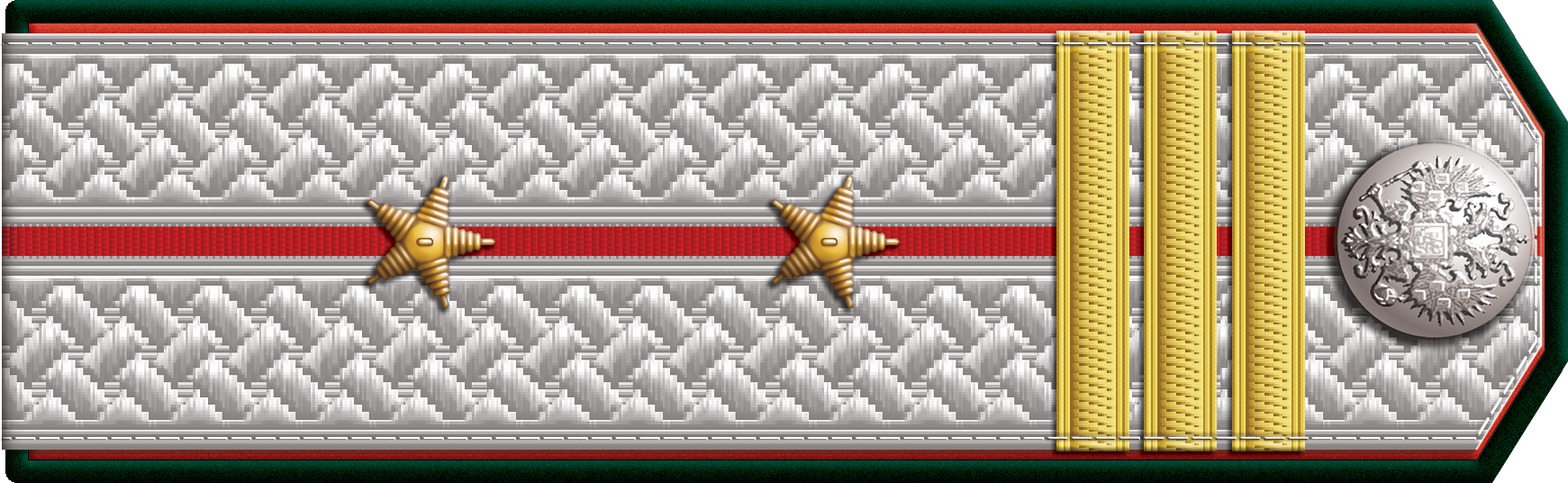 Acting military official in the rank of Gubernsky sekretar shoulder straps (1904—1917), Civil officials of Ministry of War of the Russian Empire, Imperial Russian Army